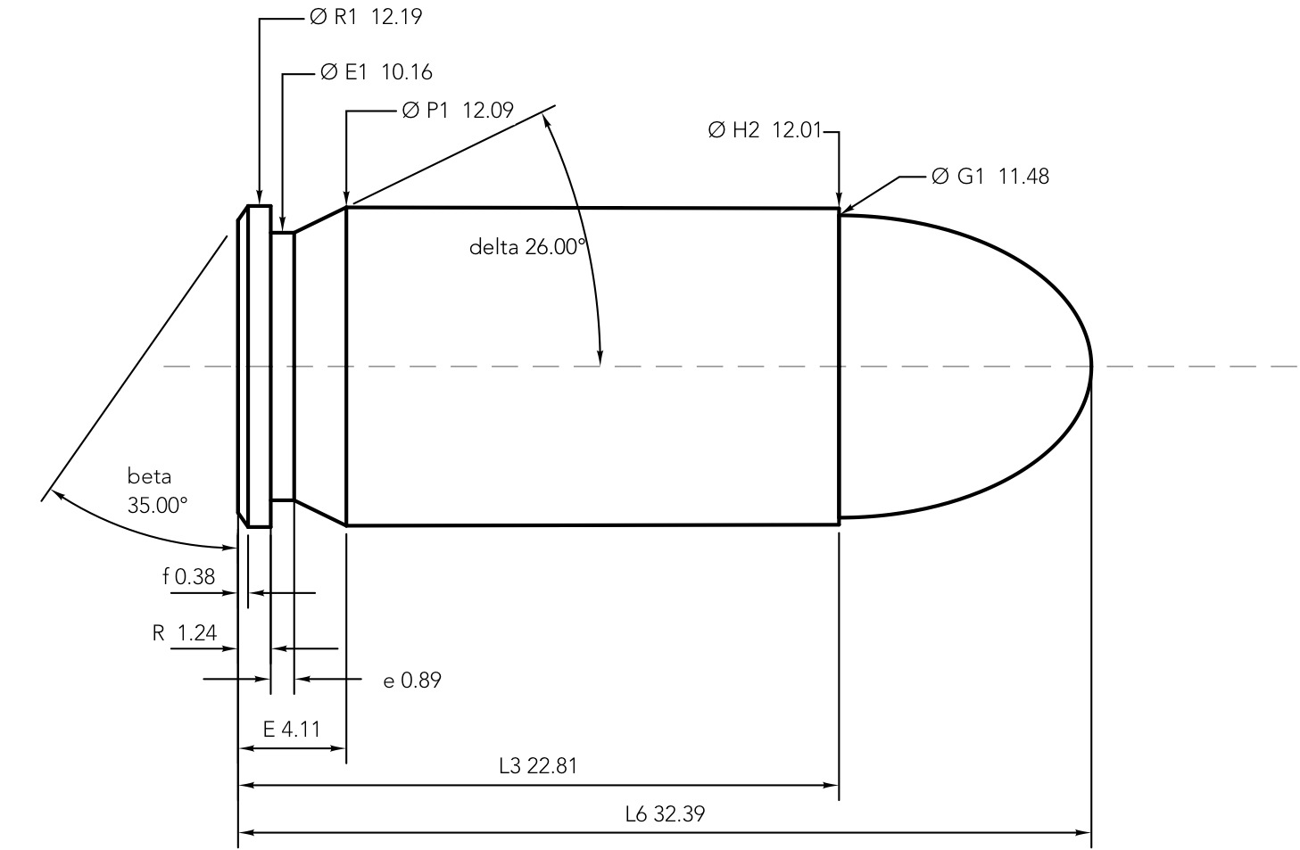 .45 ACP maximum C.I.P. cartridge dimensions.All sizes in millimeters (mm).